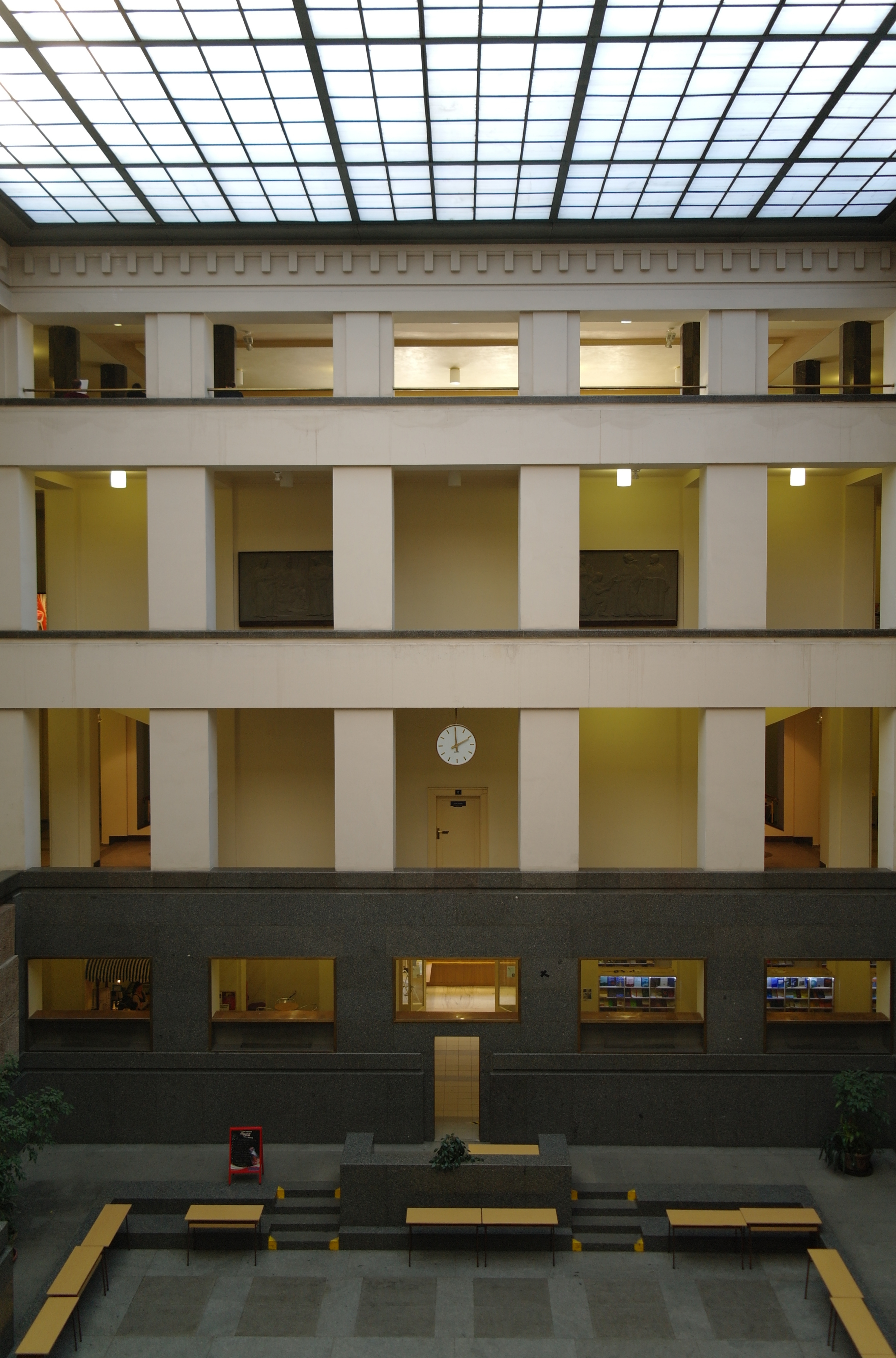 Main hall of the building of the Law... Building in neoclassicism style was projected by Jan Kotěra, the founder of modern Czech architecture, after his death project was finished by Ladislav Machoň.